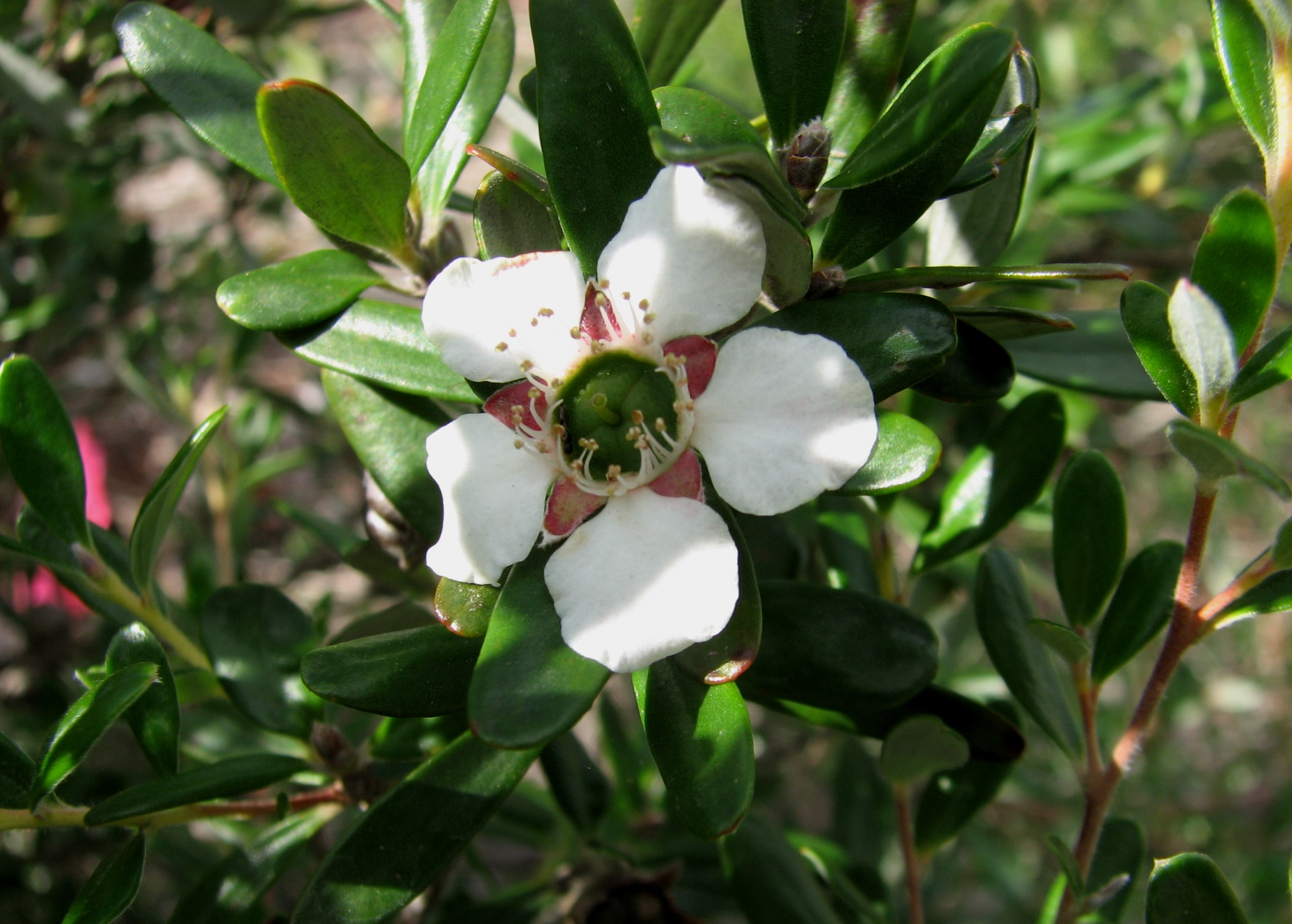 Leptospermum deuense (cultivated, labelled), Royal Botanic Gardens Cranbourne, Victoria, Australia